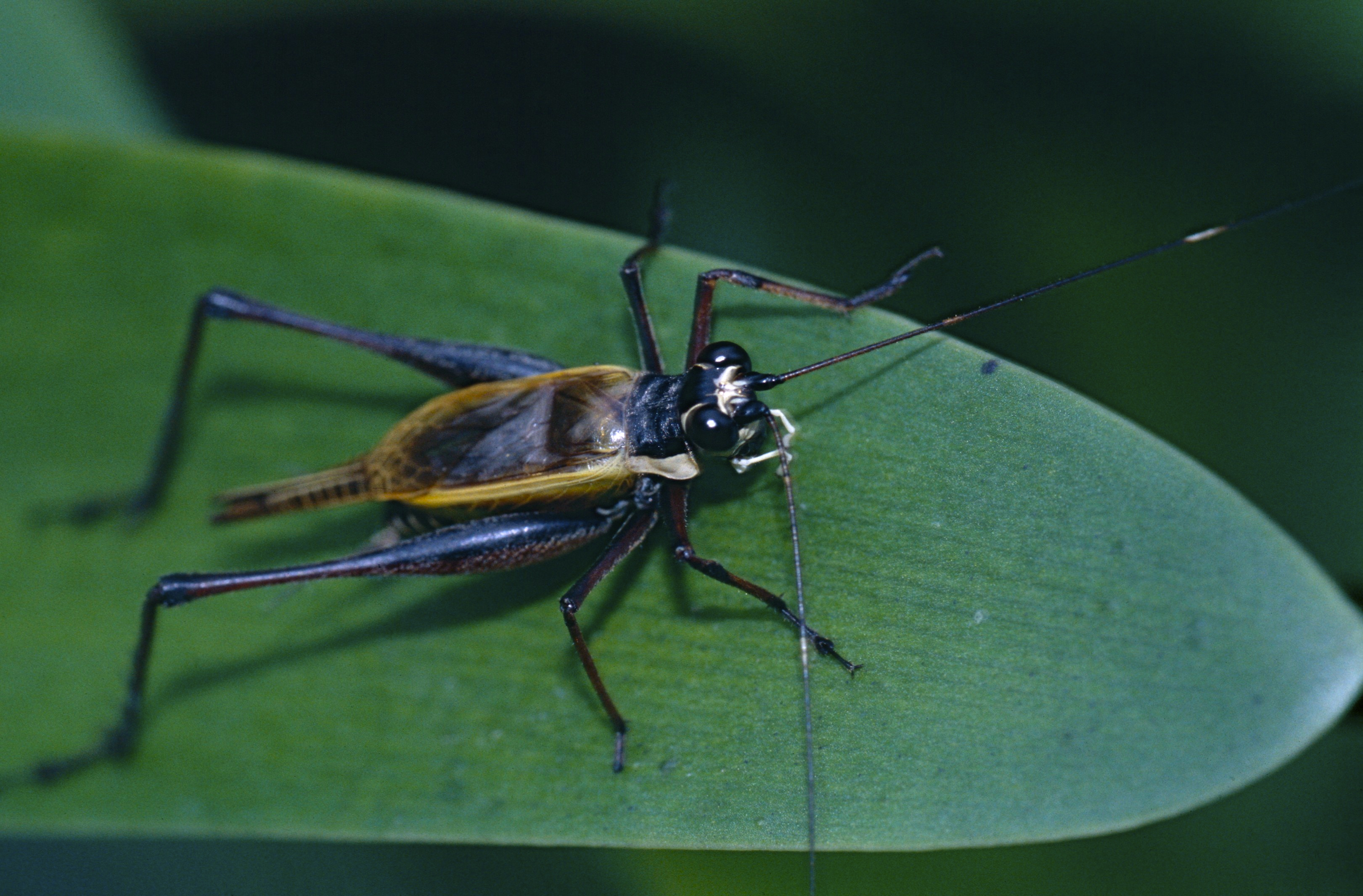 Mount Kinabalu NP, Sabah, MALAYSIA Scanned slide from 2001